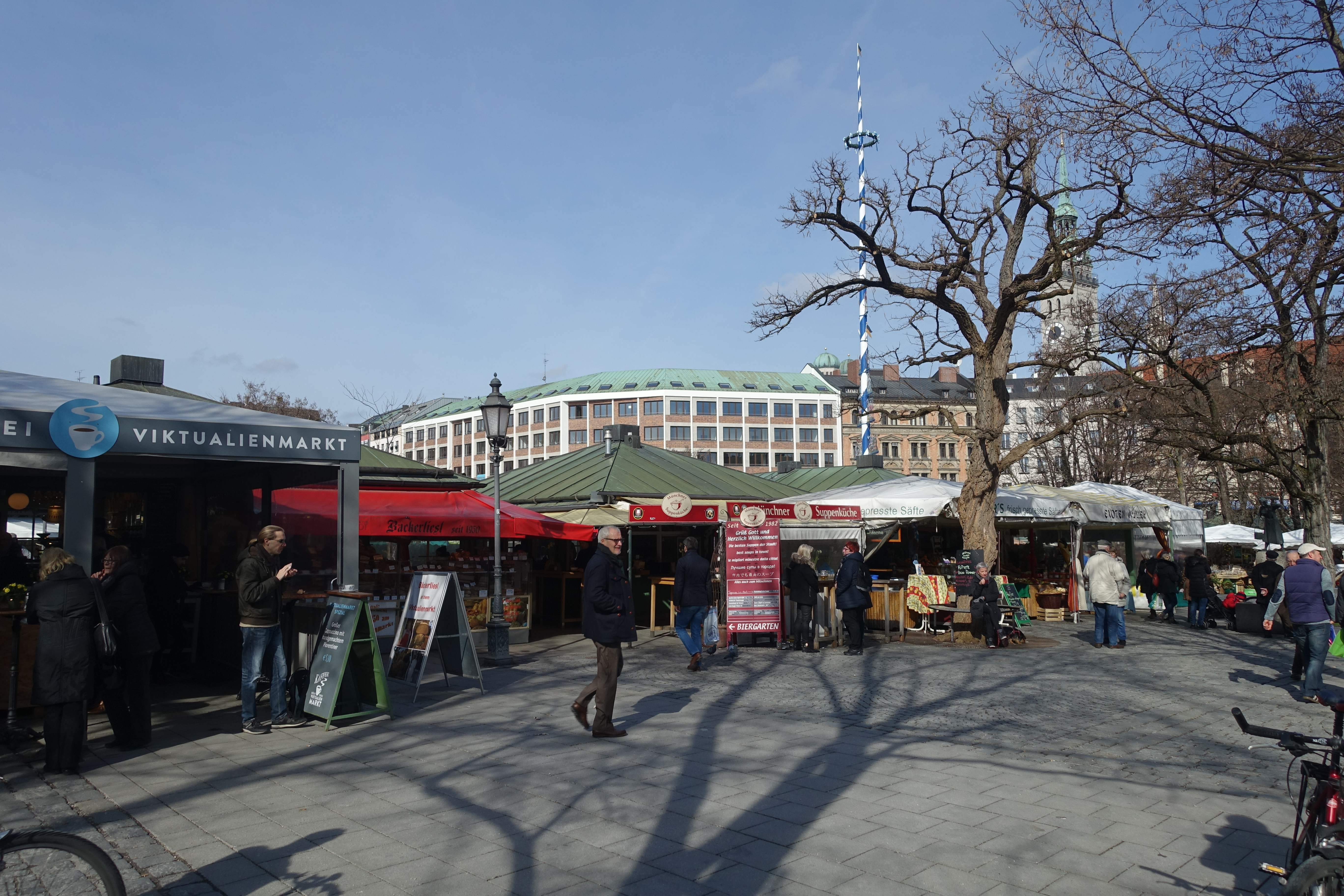 Viktualienmarkt in 2016. You can see the church Sankt Peter in the background.